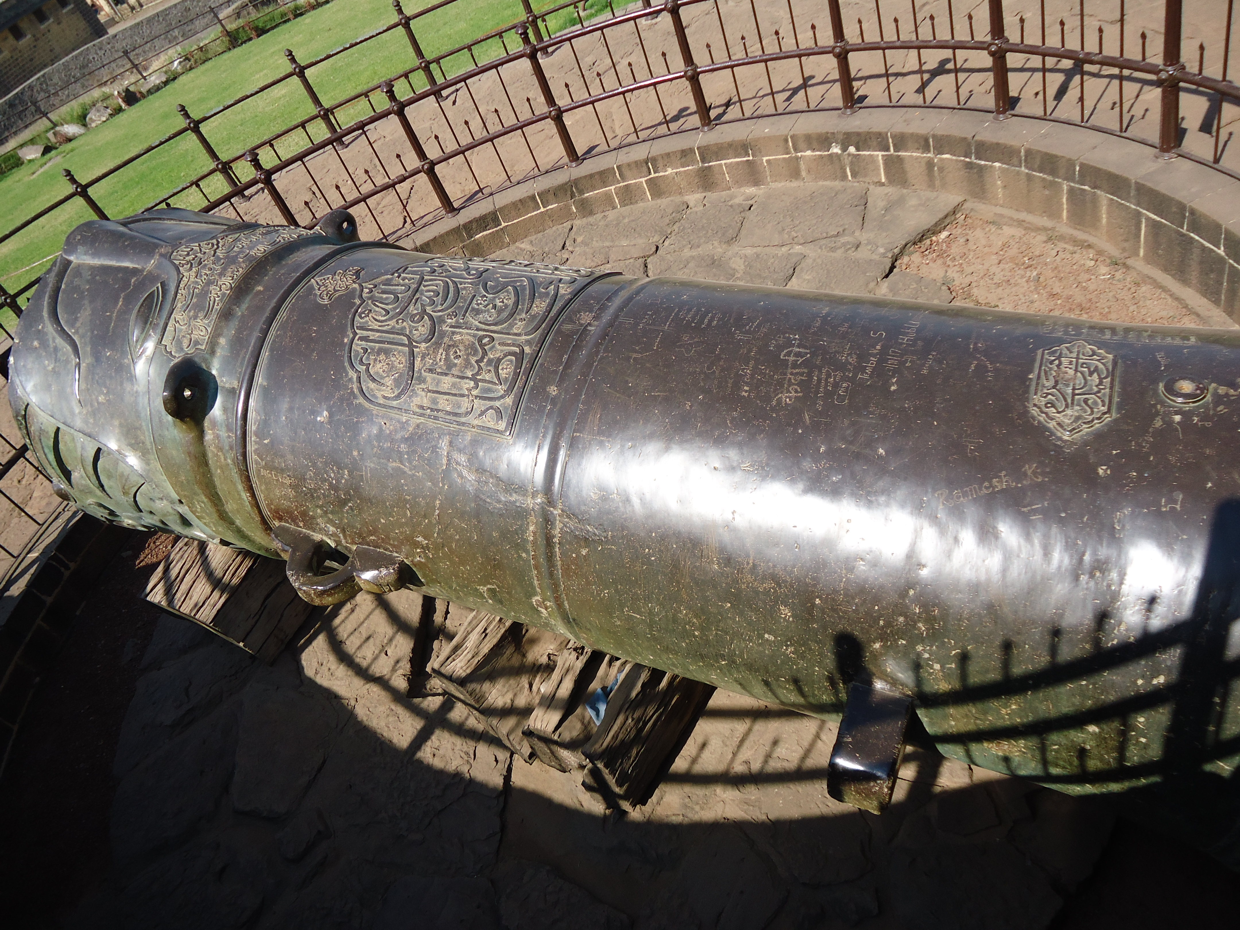 Malik-e-Maidan Bijapur India. (The Monarch of the Plains) the largest medieval cannon in the world. Being 4 m long, 1,5 m in diameter and weighing 55 tons, this gun was brought back from Ahmadnagar in the 17th century as a trophy of war by 400 oxen, 10 elephants and tens of men. It was placed on the Sherza Burj (Lion Gate) on a platform especially built for it. The cannon's nozzle is fashioned into the shape of a lion's head with open jaws & between the carved fangs is depicted an elephant being crushed to death. It is said that after igniting the cannon, the gunner would remain underwater in a tank of water on the platform to avoid the deafening explosion. The cannon remains cool even in strong sunlight and if tapped, tinkles like a bell.